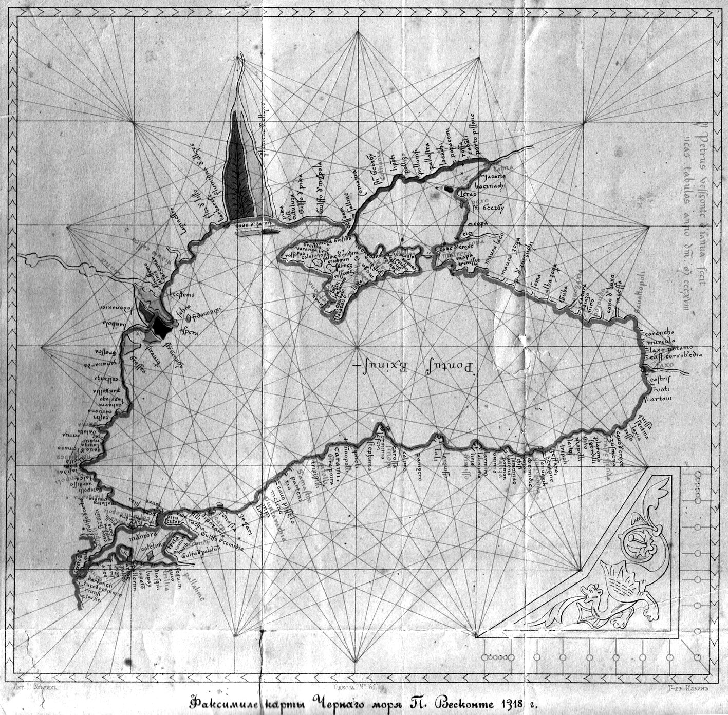 Reference Map Petro Vesconte 1318 with the image of the Crimea, Azov Sea